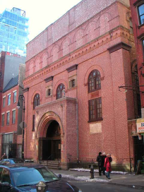 First Roumanian-American synagogue, Manhattan, New York - exterior